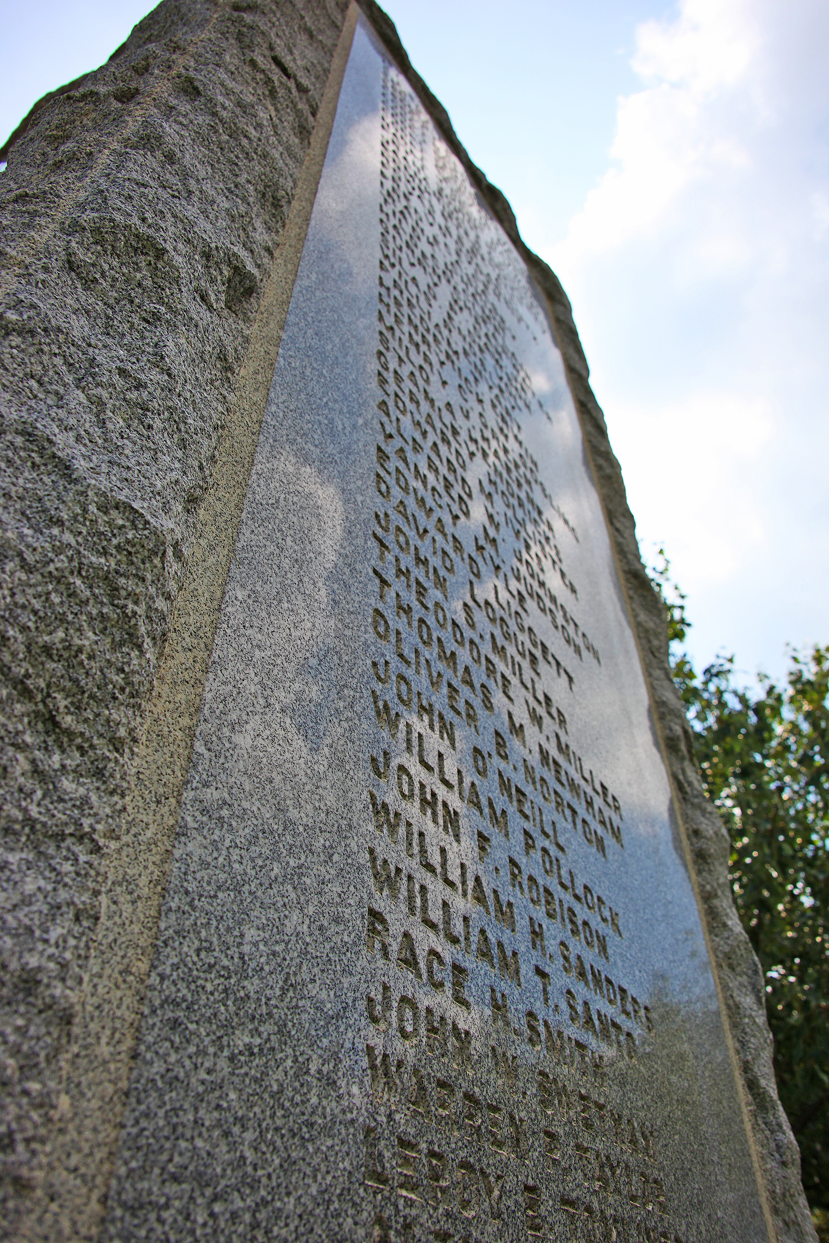 Looking up at the north face of the Rough Riders Monument at Arlington National Cemtery in Arlington, Virginia, in the United States. The monument is in Section 22 of the cemetery. The 1st U.S. Volunteer Cavalry, better known by its nickname the "Rough Riders," was a unit of the U.S. Army which fought in the Spanish-American War. It was formed and led by then-Colonel Leonard Wood. The second-in-command was former Assistant Secretary of the Navy, Theodore Roosevelt. After Wood was promoted to lead the 1st Cavalary, Roosevelt assumed command of the unit. It made a famous charge up San Juan Hill in Cuba, and saw action in two other battles. It was desgined and erected by "friends of the regiment" in 1906. The 10-foot-high rough grey granite obelisk rests on a trapezoidal base with a polished upper surface. The monument, which faces west, is inscribed at the top with the phrase "ROUGH RIDERS" and a brass plaque dedicating the memorial to the dead of the 1st U.S. Volunteer Cavalry. The south face of the memorial is polished, but contains no inscription. The back of the memorial is polished, and contains a listing of the battles in which the unit participated. The north face of the memorial is polished, and contains a listing of the names of the dead. The monument sits a few feet east of McPherson Drive.